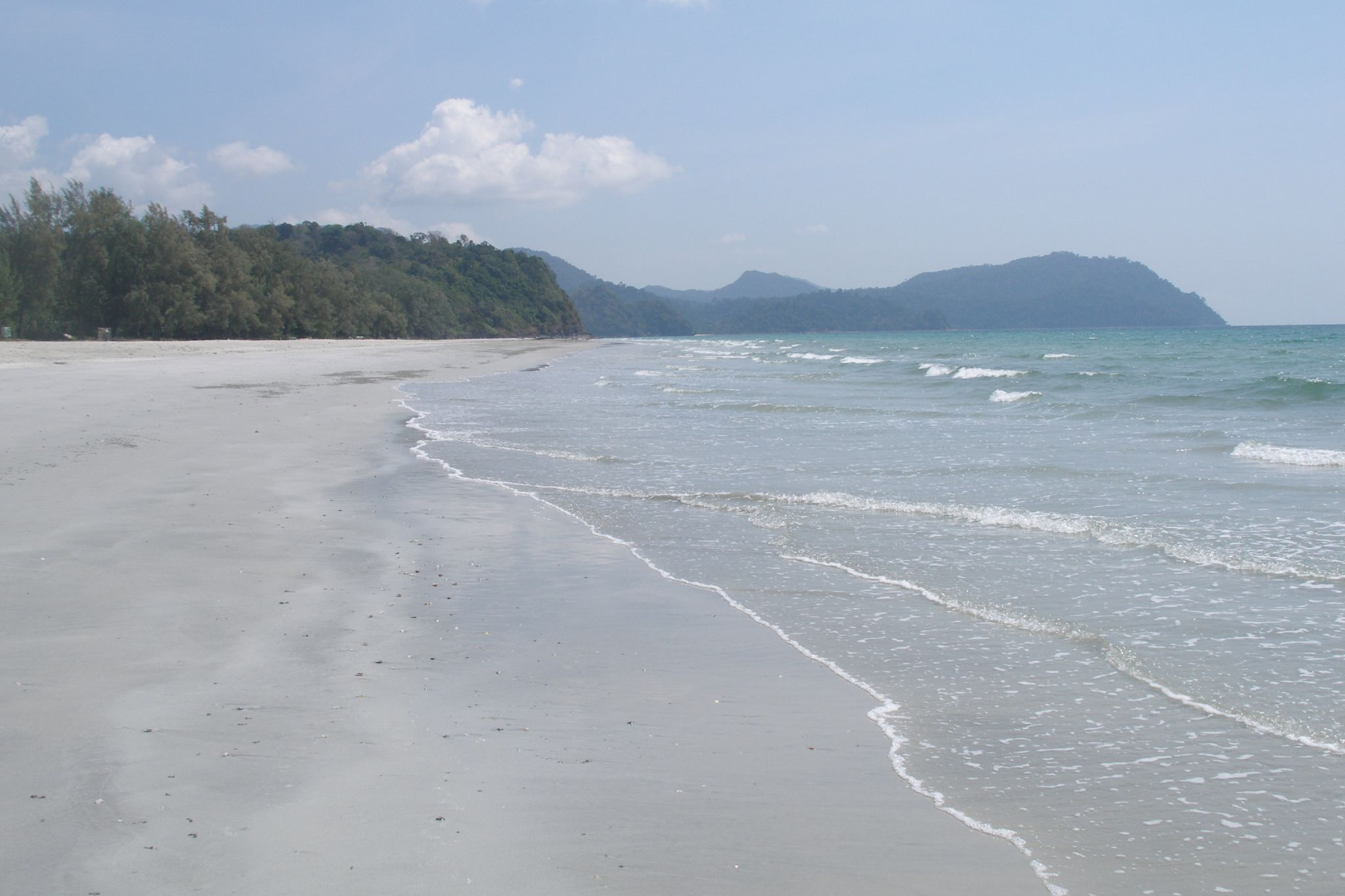 Tarutao National Marine Park consists of 51 islands located in the Andaman Sea, off the coast of Satun Province of Southern Thailand.